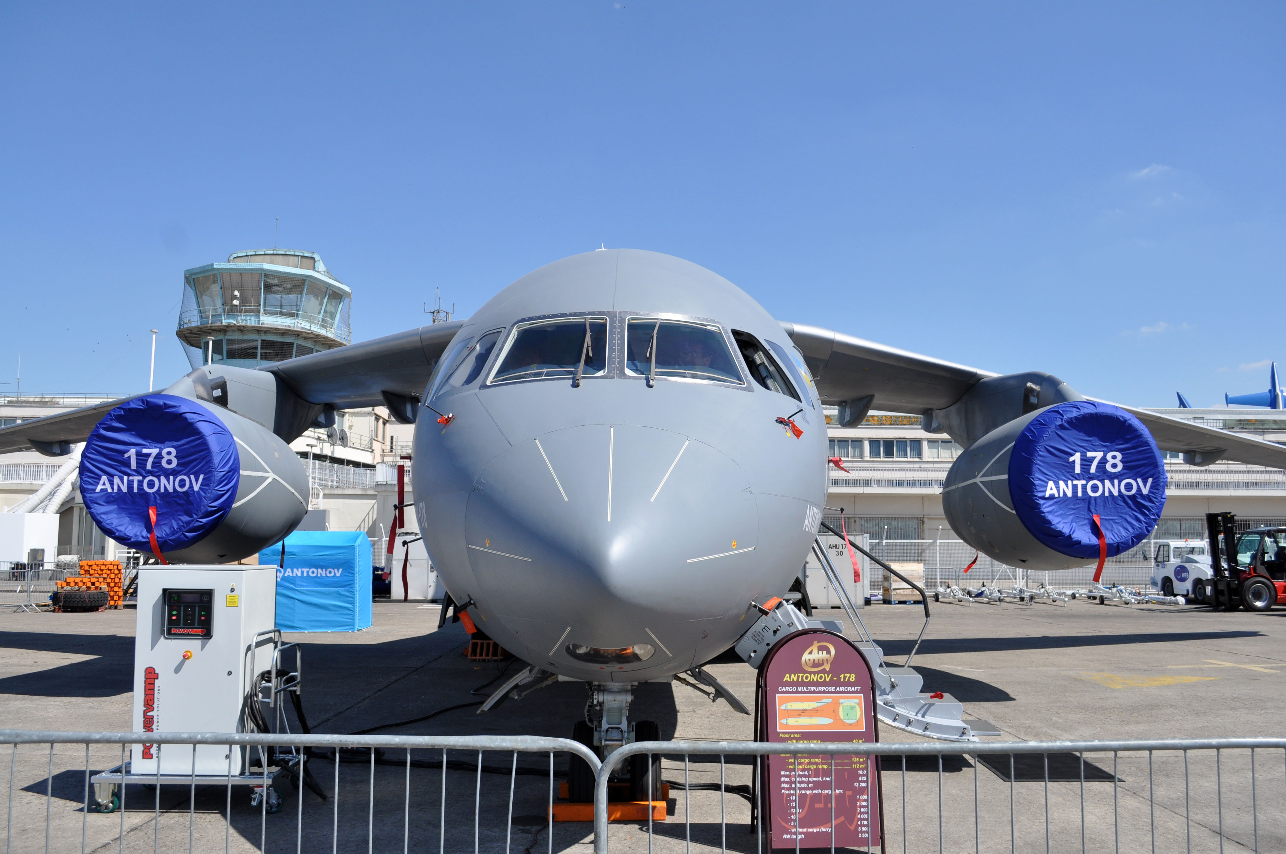 Antonov An-178, Antonov Design Bureau Airlines, LBG AIRPORT, SIAE 2015, FIRST FLIGHT 05/07/2015